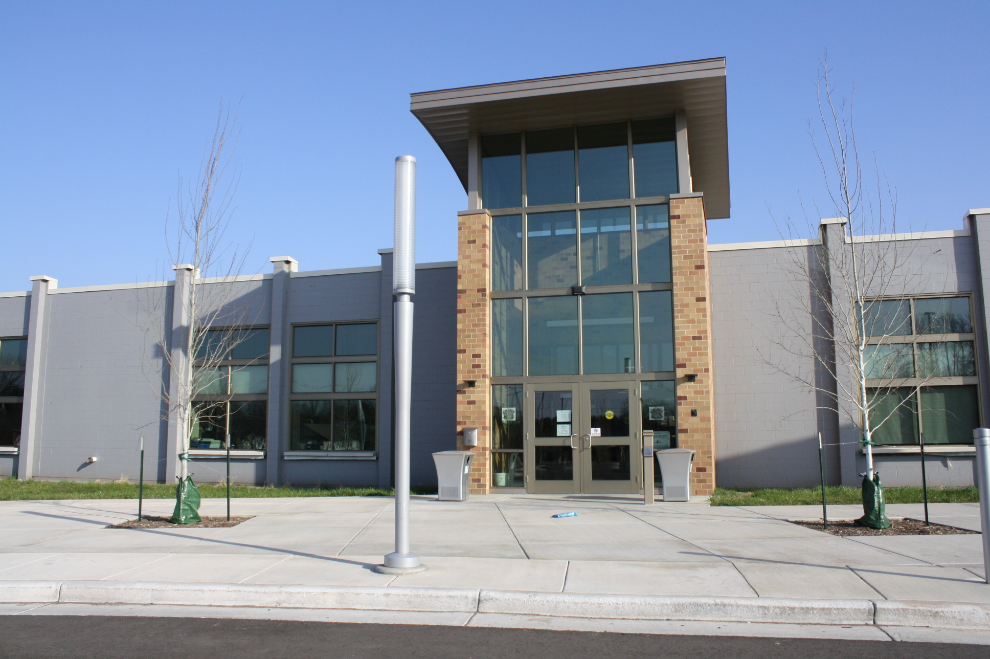 The Black River Falls, Wisconsin campus of Western Technical College.